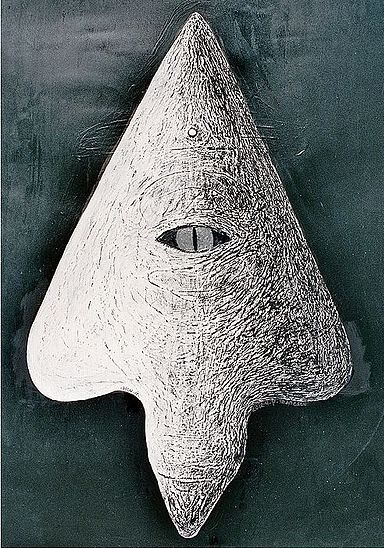 "PION-IT-THOT", photography of a Dan Pero Manescu (Q-ART) painting, Acrylic & Wax Oil on China cardboard, 50 x 70 cm